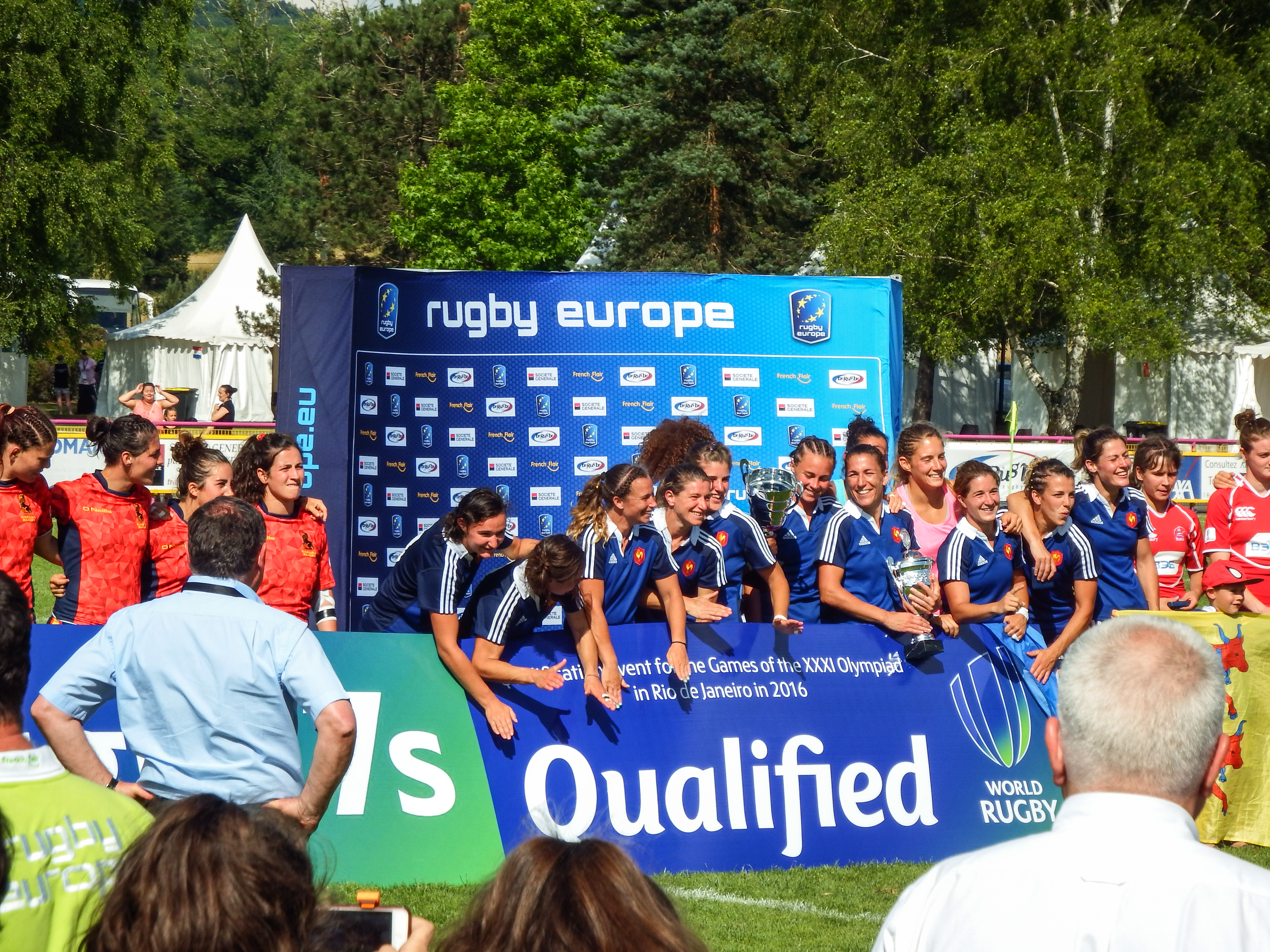 Malemort Sevens 2015 — 21 June 2015, stade Raymond-Faucher. Match between: France — Spain